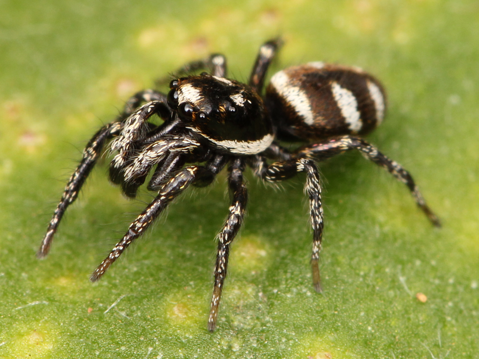 Adult male Salticus scenicus jumping spider. Found at China Camp State Park, California.